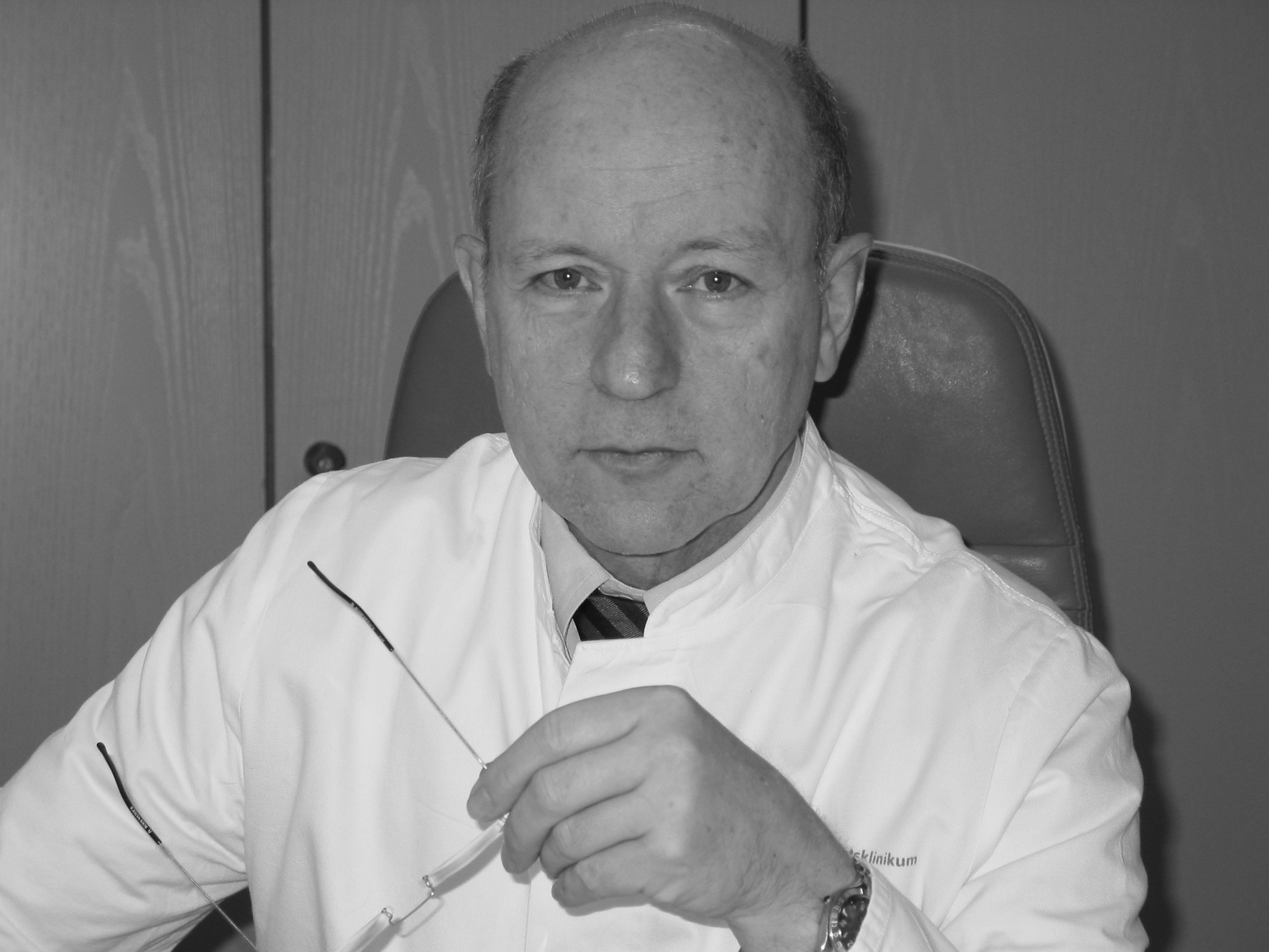 Thomas Philipp, Prof. Dr. Dr. h.c.